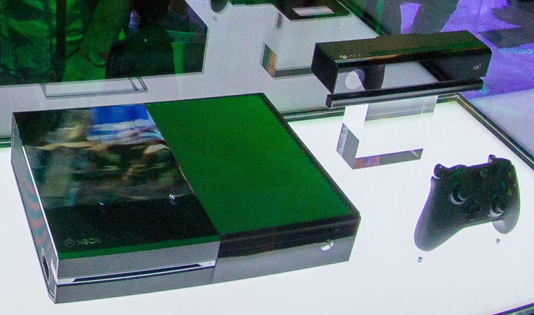 Xbox One Hardware at E3 2013.